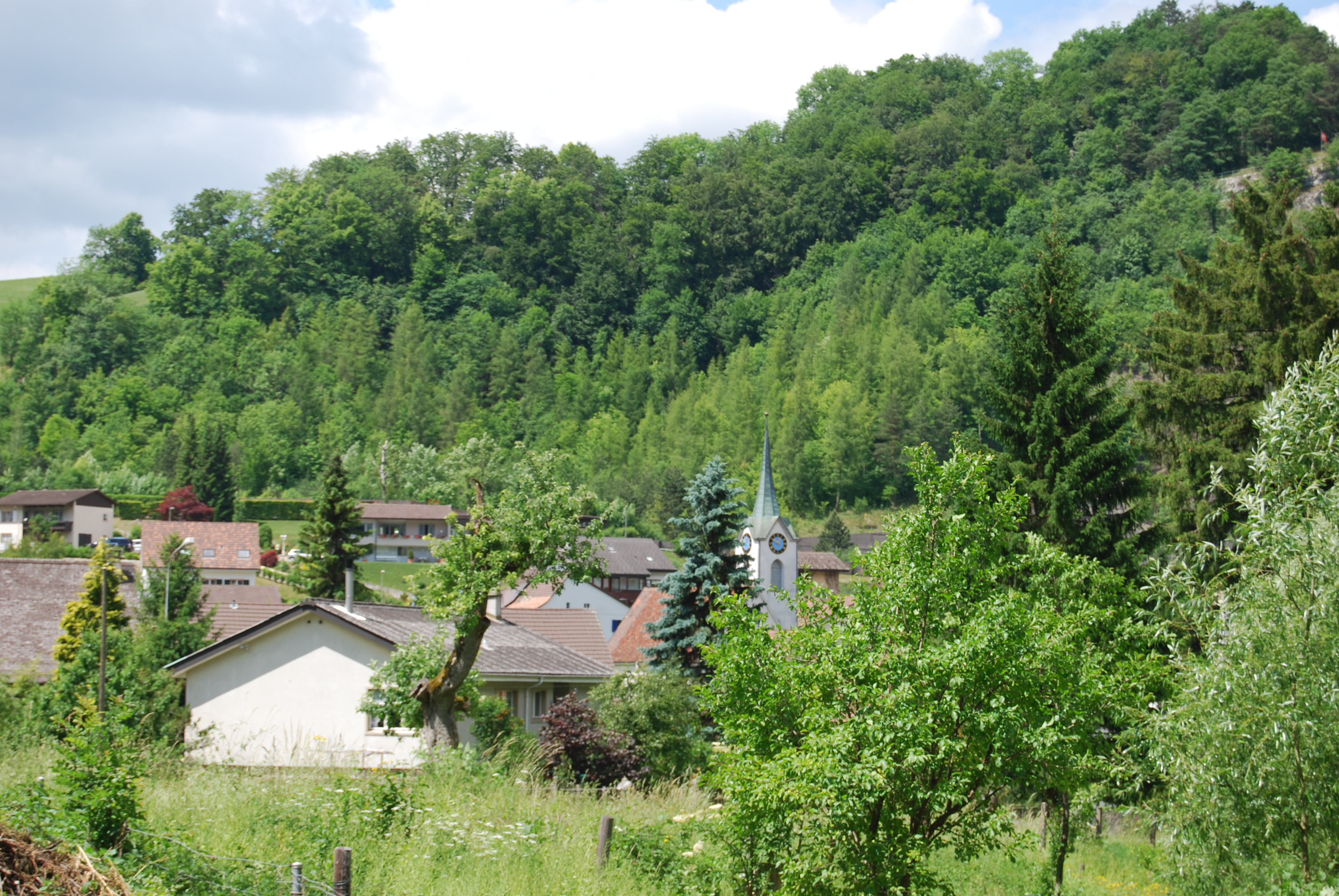 Eptingen, canton of Basel-Country, Switzerland